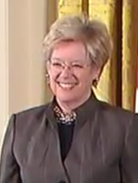 American astronomer Sandra Faber (left) accepts the National Medal of Science from U.S. President Barack Obama, February 1, 2013.